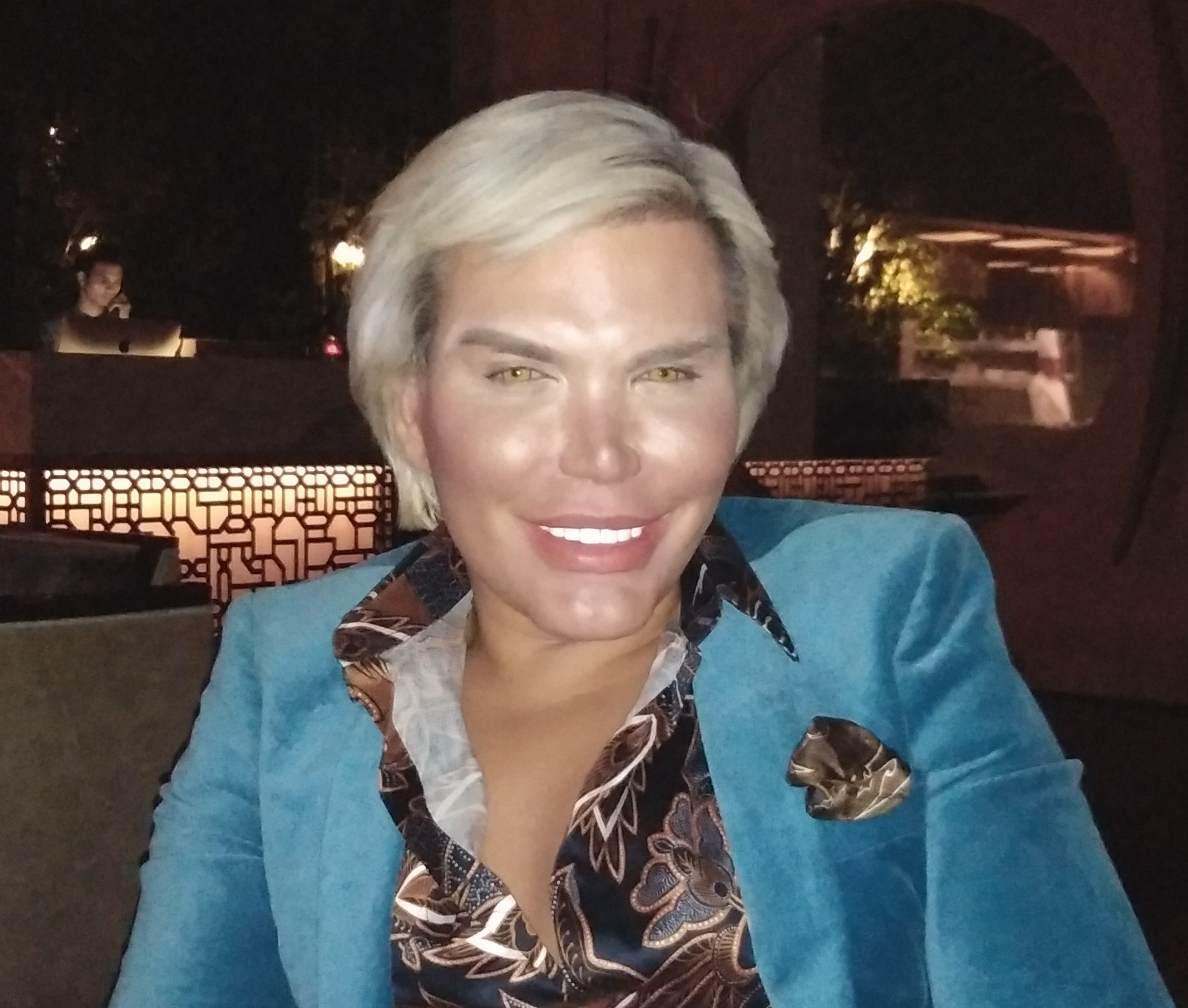 Portrait of Rodrigo Alves